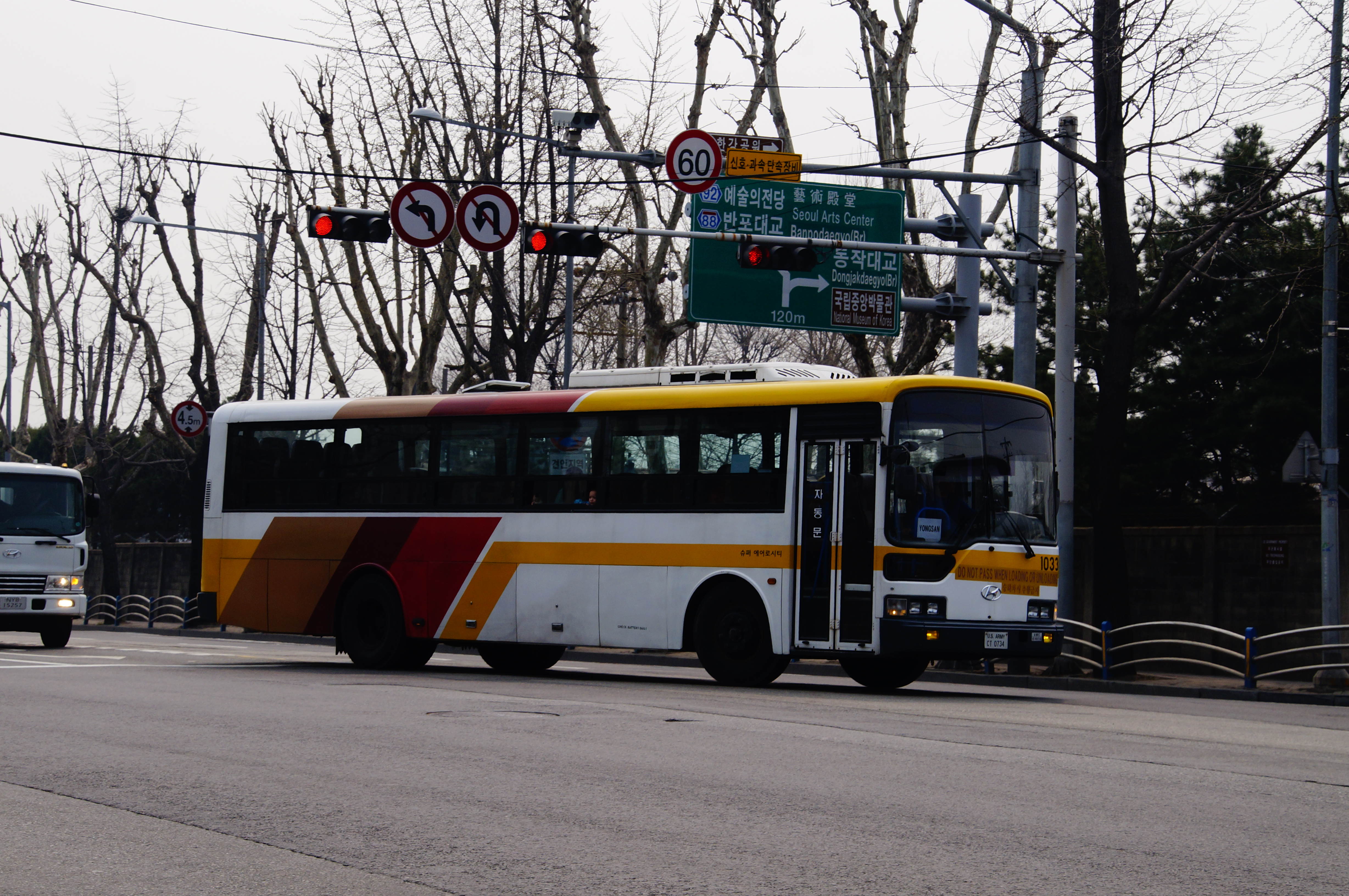 US Army 2000-2001 Hyundai Super Aero City 1033 turning onto US Army eastern entrance.